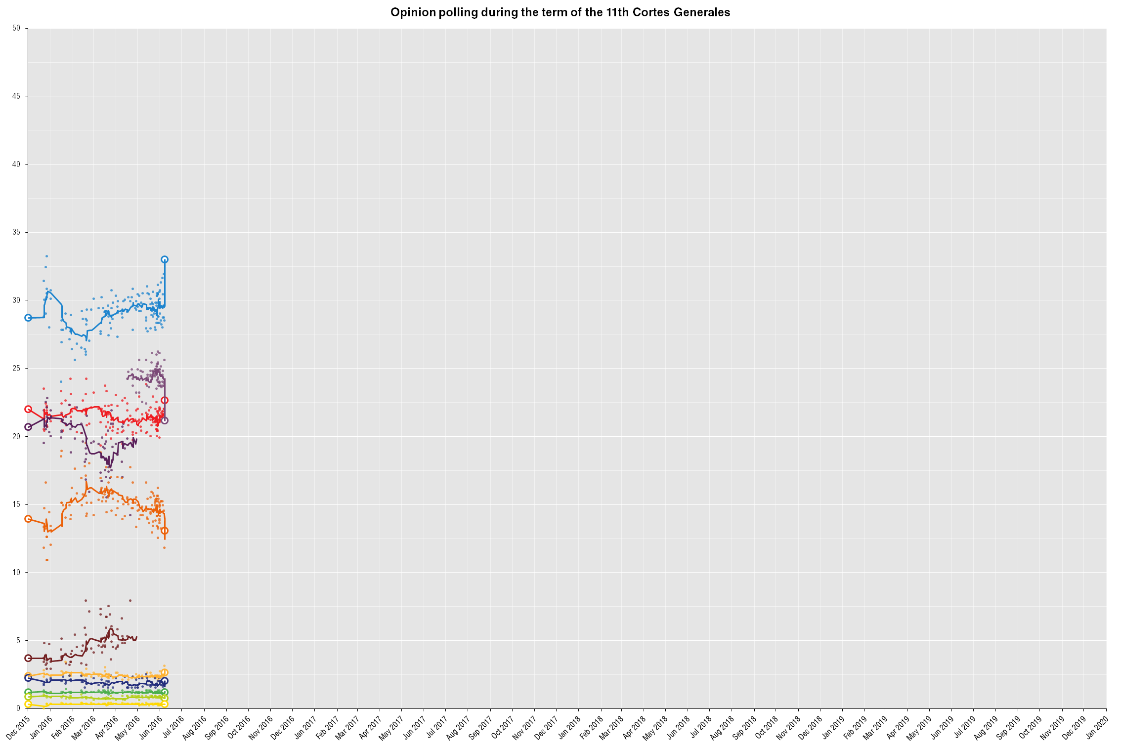 10-point average trend line of poll results from 20 December 2015 to 26 June 2016, with each line corresponding to a political party. PP PSOE Podemos C's IU/UPeC ERC DiL/CDC PNV EH Bildu CC Unidos Podemos